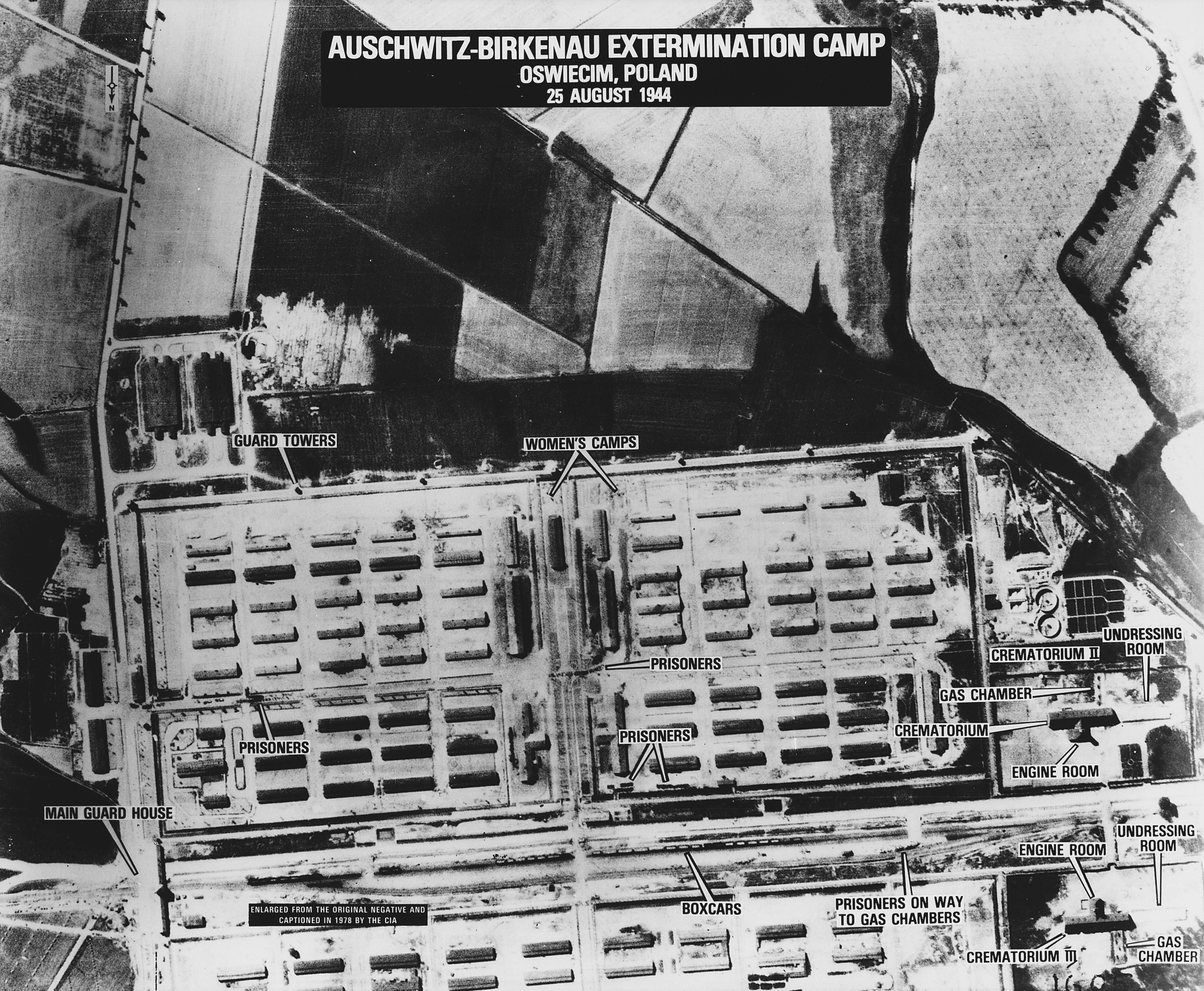 Photograph of the German extermination camp at Auschwitz II-Birkenau in occupied Poland, taken by a United States Army Air Force plane on August 25, 1944. Crematoria II and III are visible. For the date of the image and what it shows, see The Case for Auschwitz by Robert Jan van Pelt, 2002, Indiana University Press, p. 175. ISBN 0253340160 The photograph is oriented with south at the top.